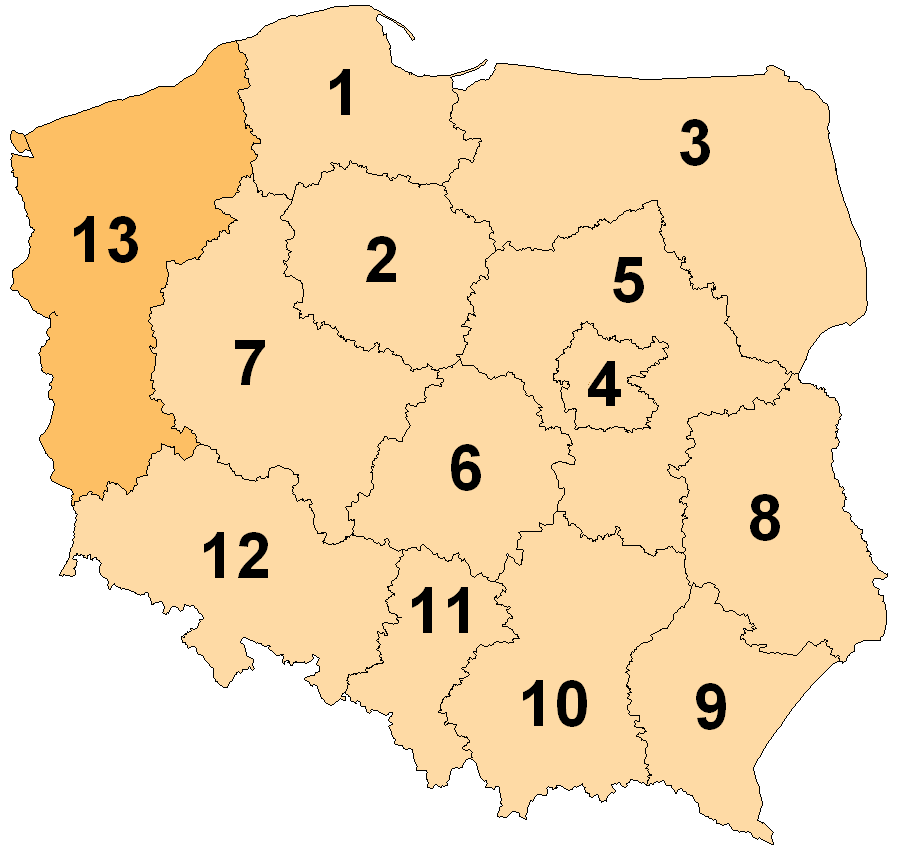 Lubusz and West Pomeranian (European Parliament constituency) - European Parliament constituencie in Poland